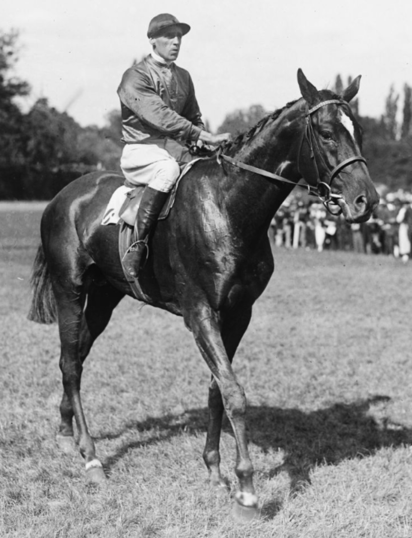 Jockey Joe Childs mounted on Lemonora, having just won the Grand Prix de Paris at Longchamp, 26 June 1921, then the world's highest prize money race. Horse owned by Joseph Watson, 1st Baron Manton.